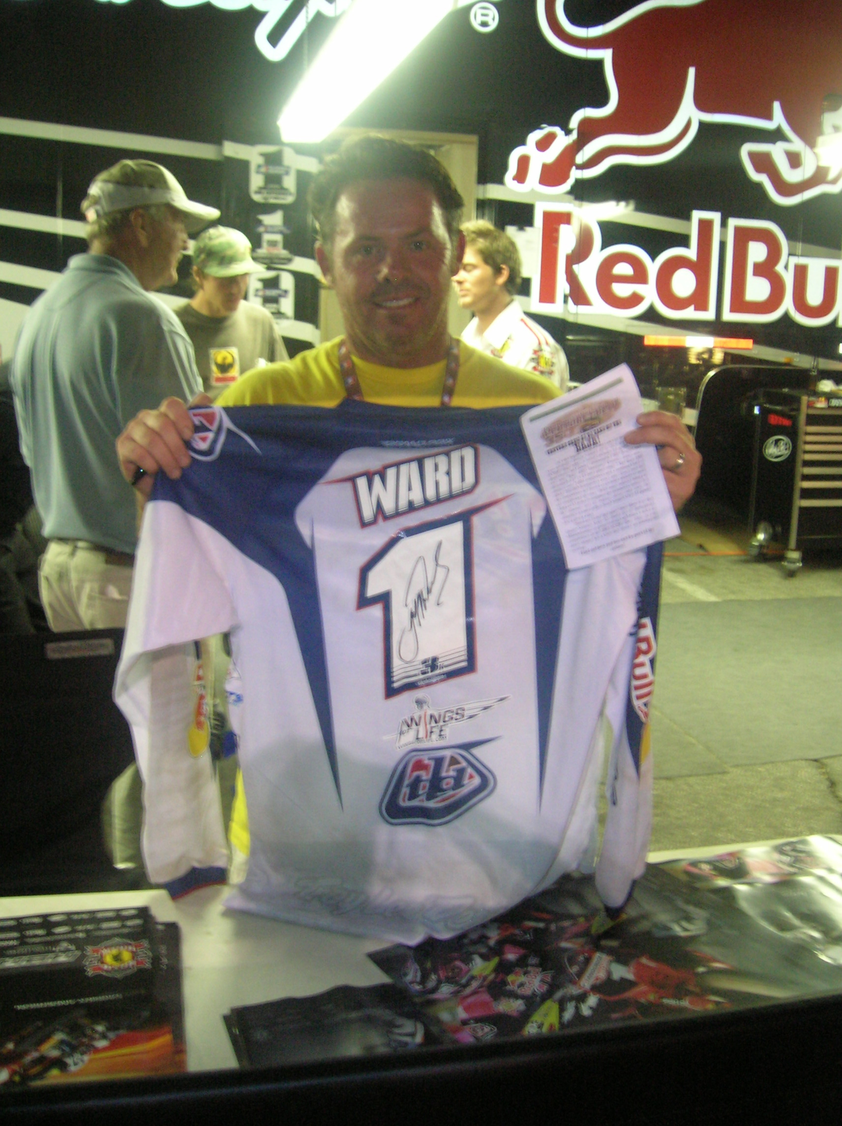 Jeff Ward (motocross) poses with his autographed jersey and a flyer from BSA Venture Crew 35. The jersey was donated to the Venture Crew.